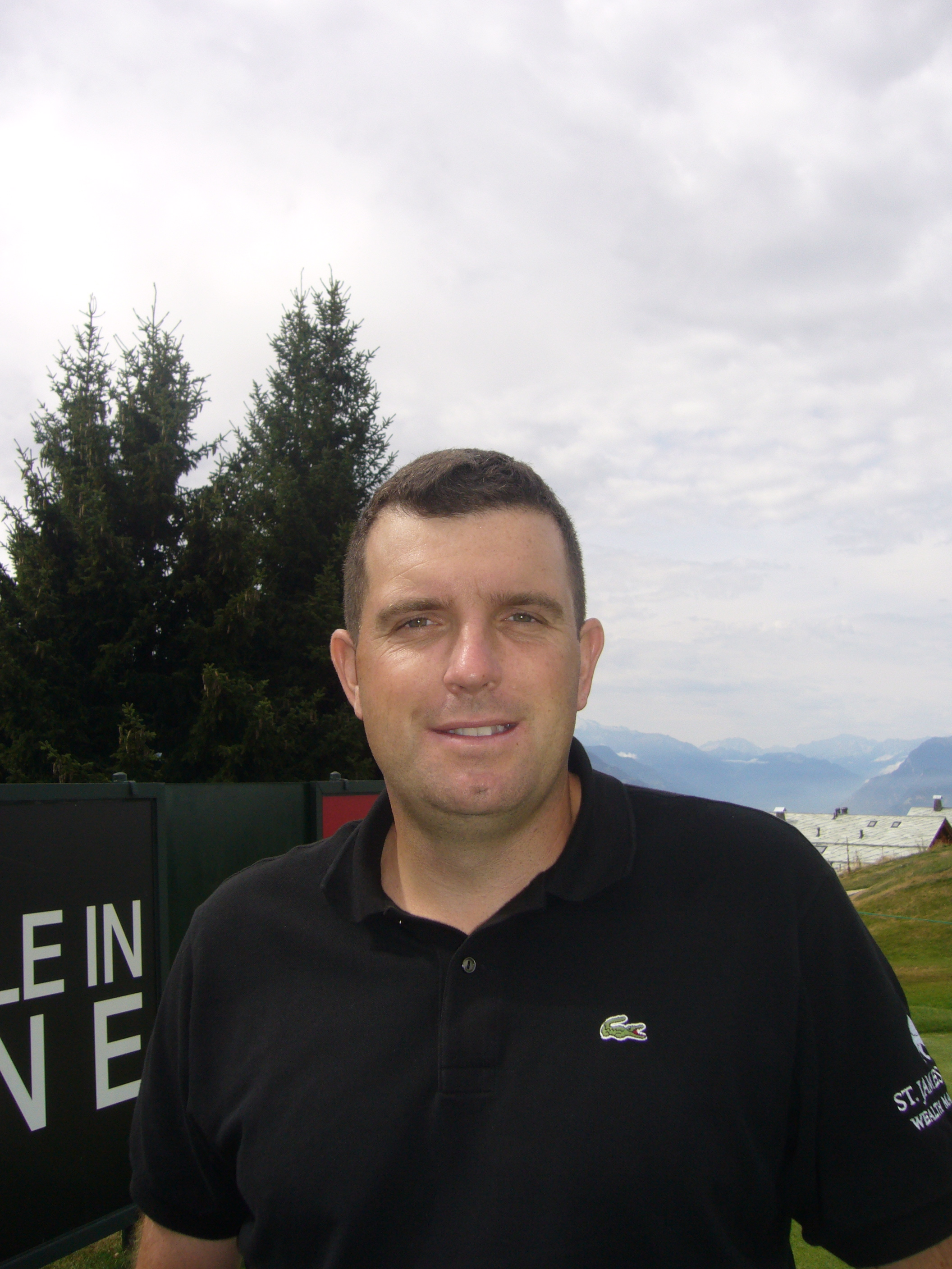 Anthony Wall, professional golfer from England